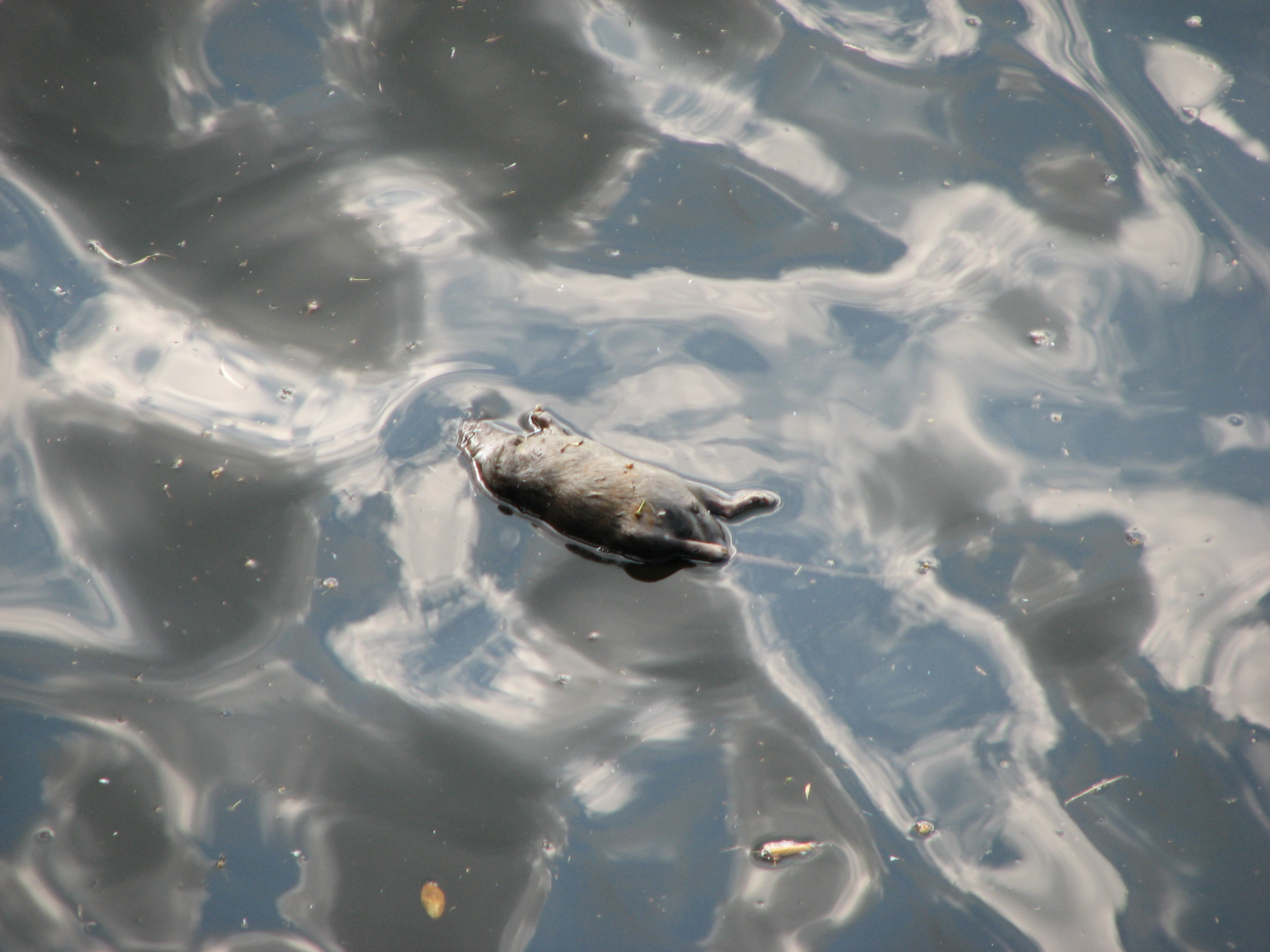 A dead rat found floating near a river bank.